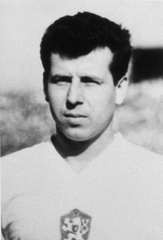 Josef Masopust